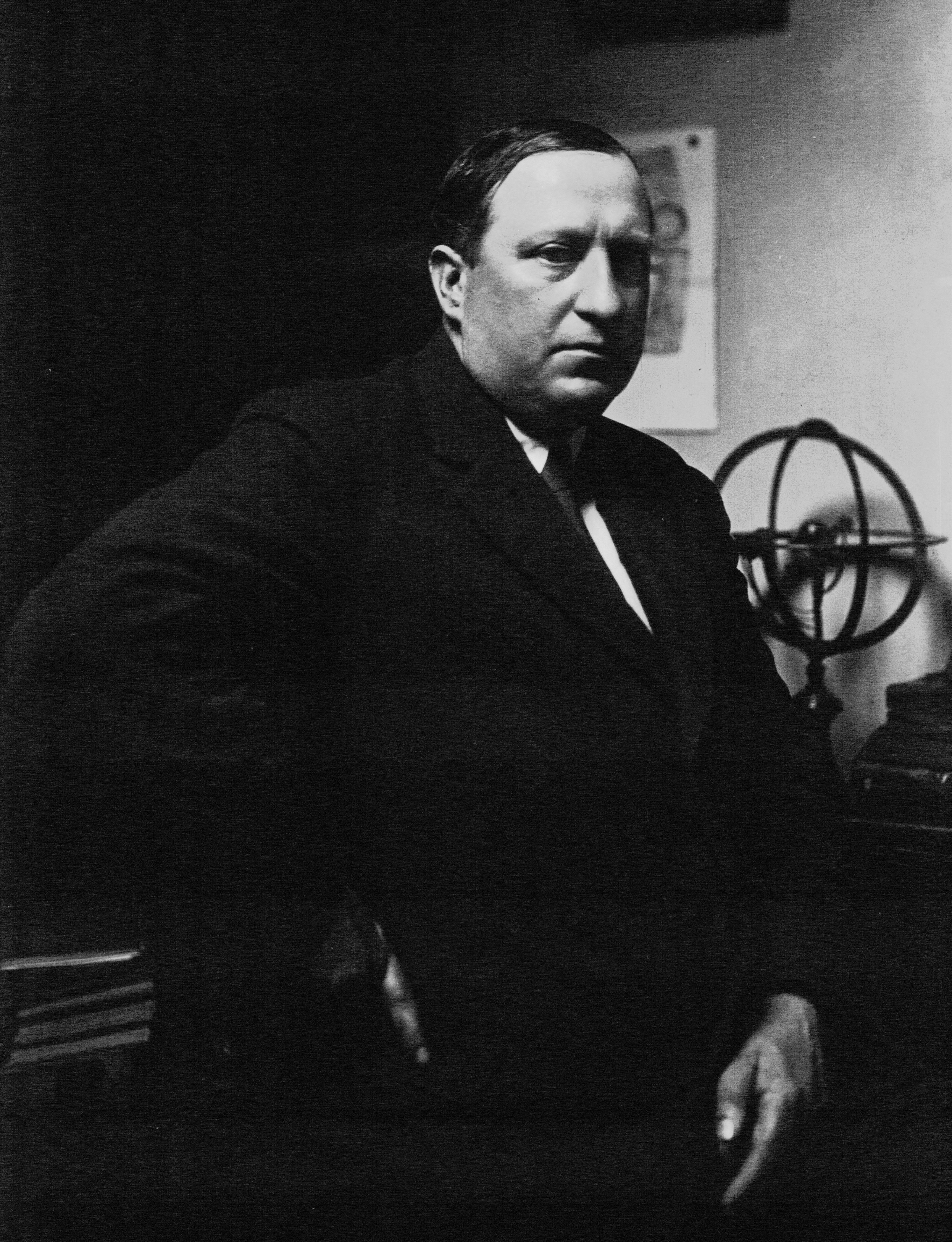 French painter André Derain (1880-1954).